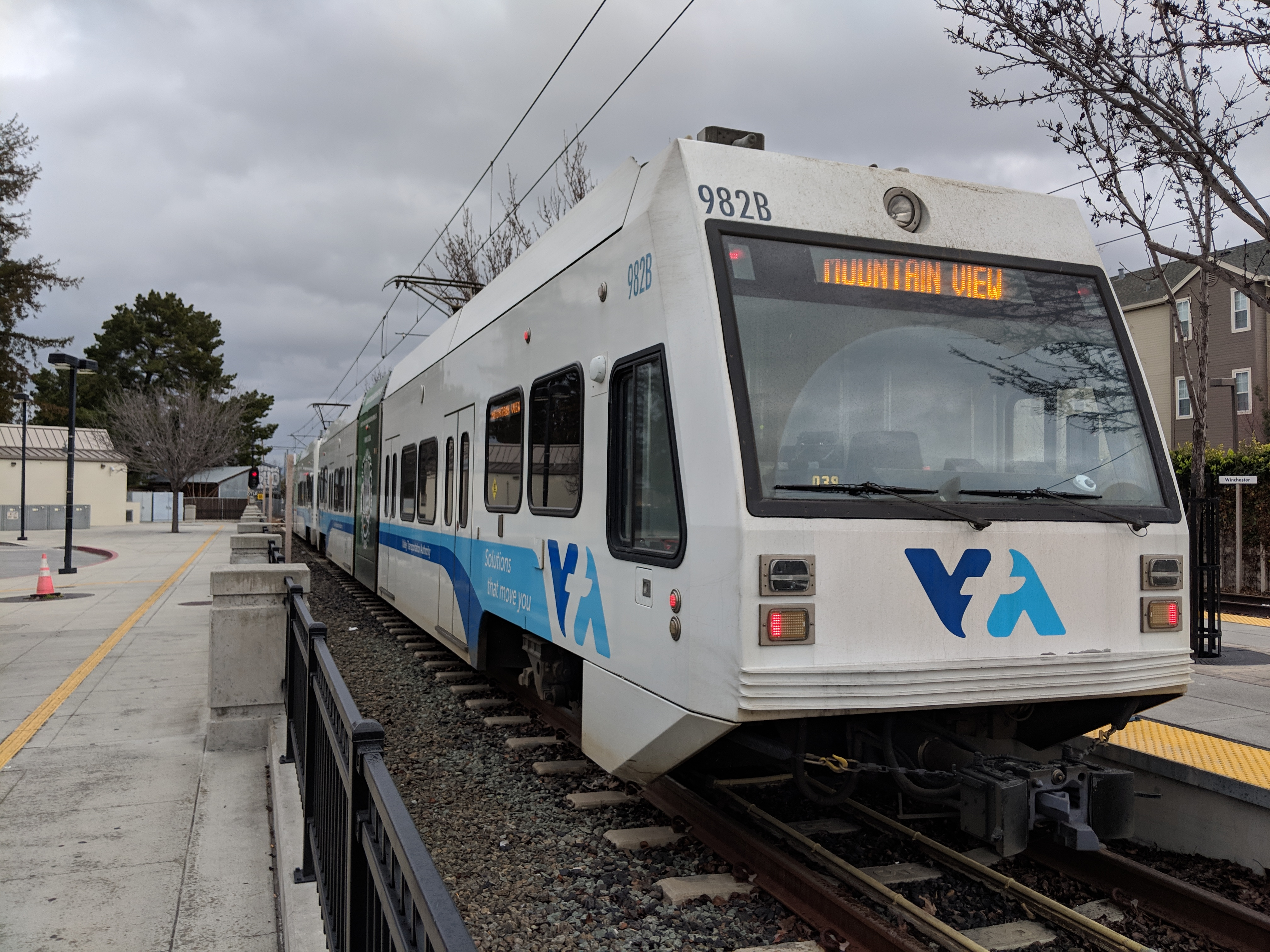 Santa Clara Valley Transportation Authority light rail vehicle built Kinki Sharyo at Winchester station in Campbell, California.